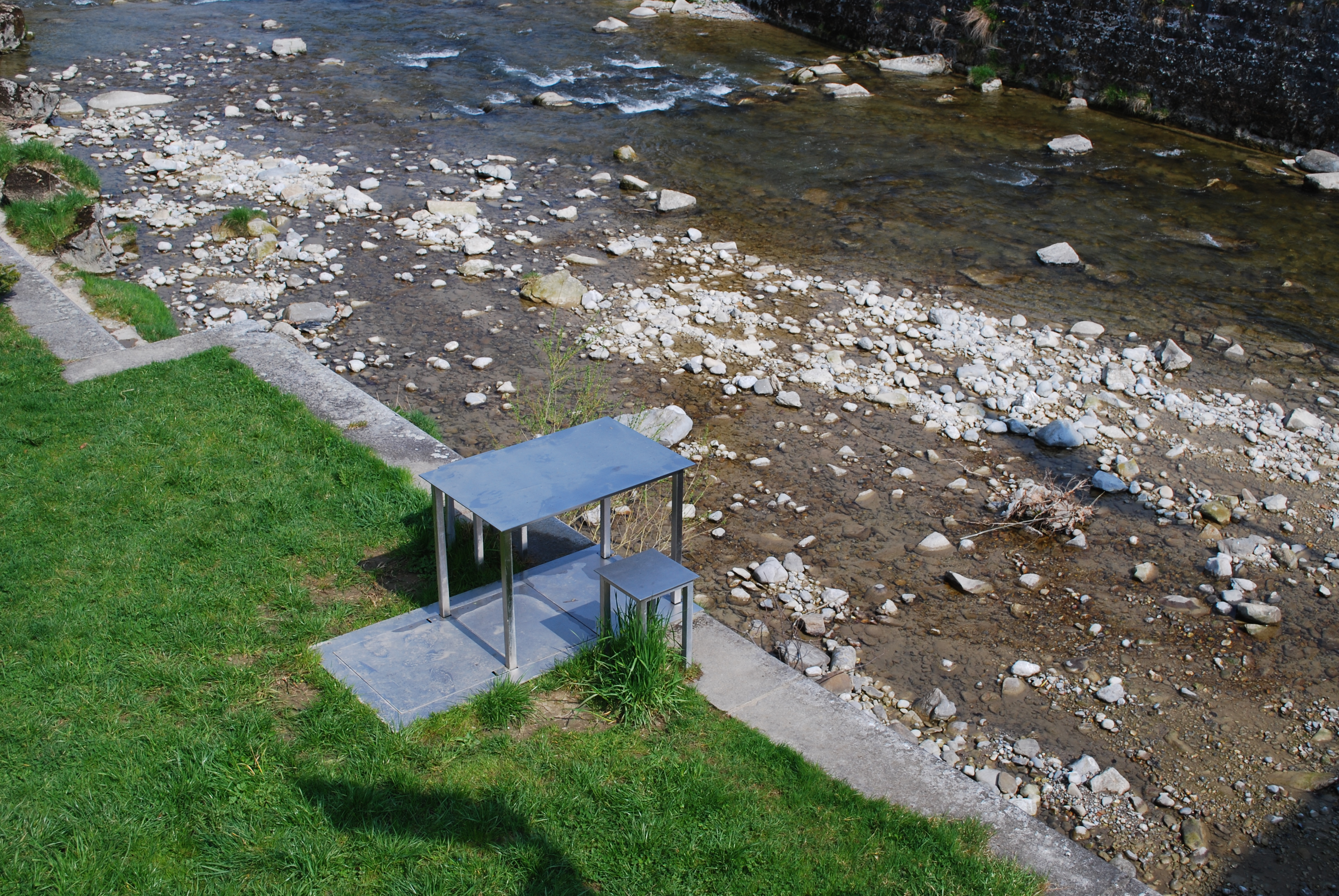 "Der Tisch" (the table) by Roman Signer in Appenzell Aus den dem Fluss zugewandten beiden Tischbeinen kann mit hohen Druck Wasser strömen, sodass der Tisch auf den Rasen kippt.